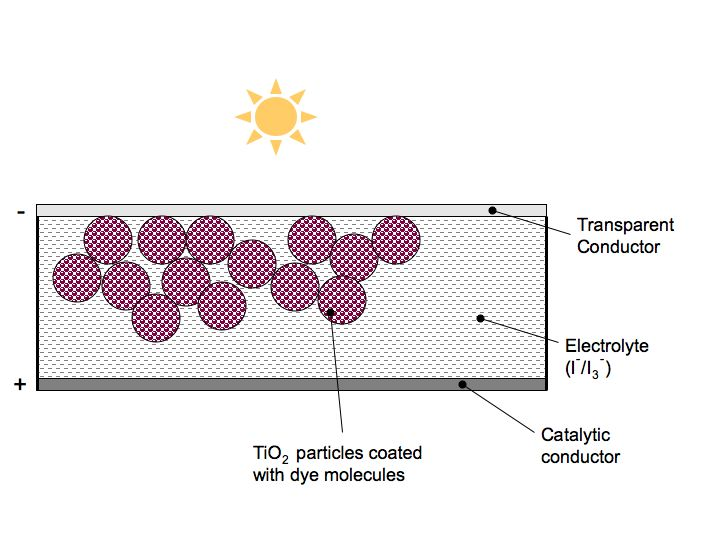 Structure of a dye sensitized photovoltaic cell